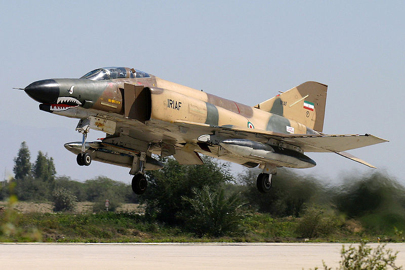 An IRIAF F-4E takeoffs.